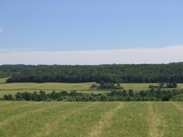 photo of the Rolling Hills of Camillus, NY, taken by me on June 30, 2007